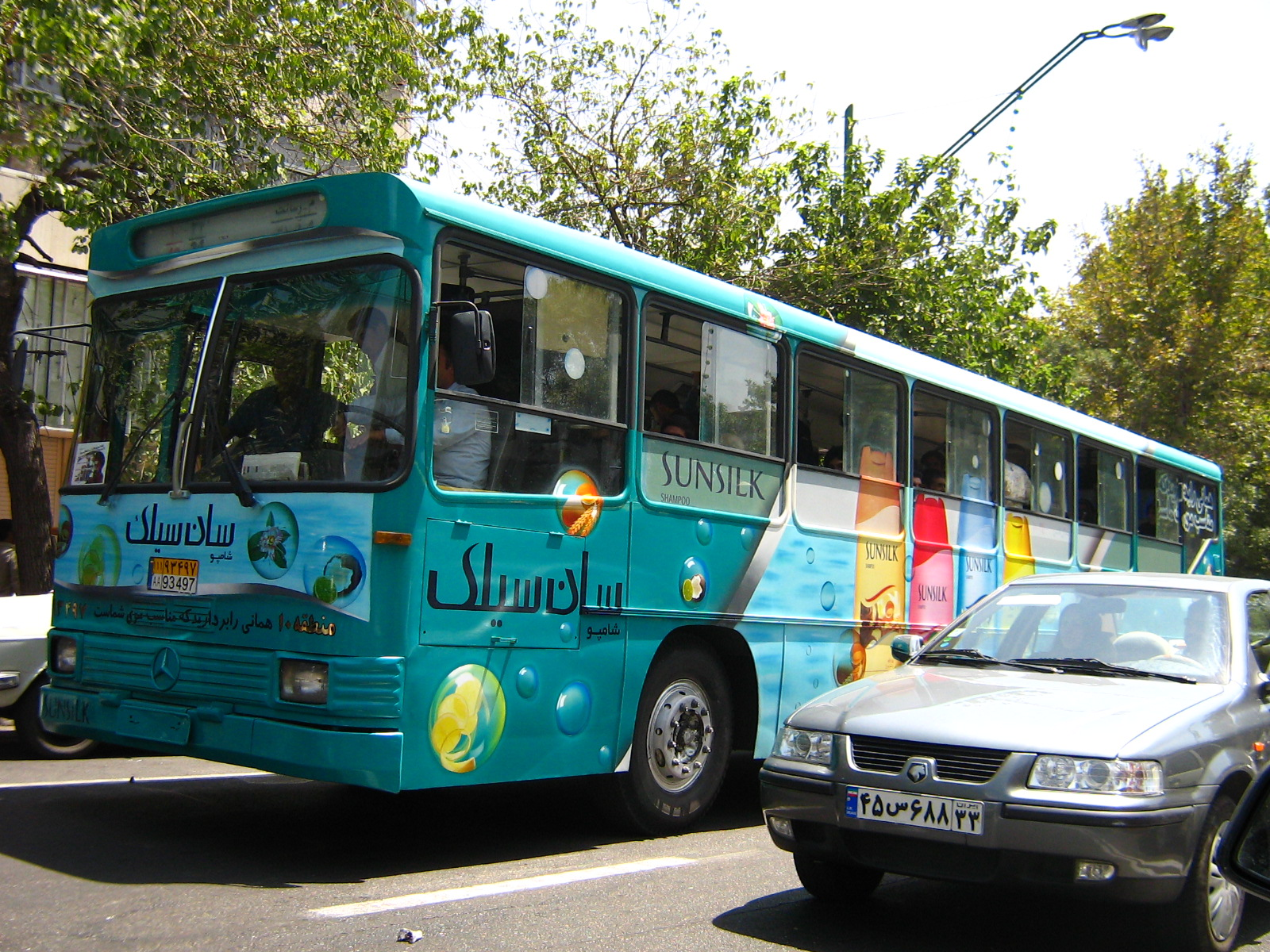 Mercedes bus and Samand car